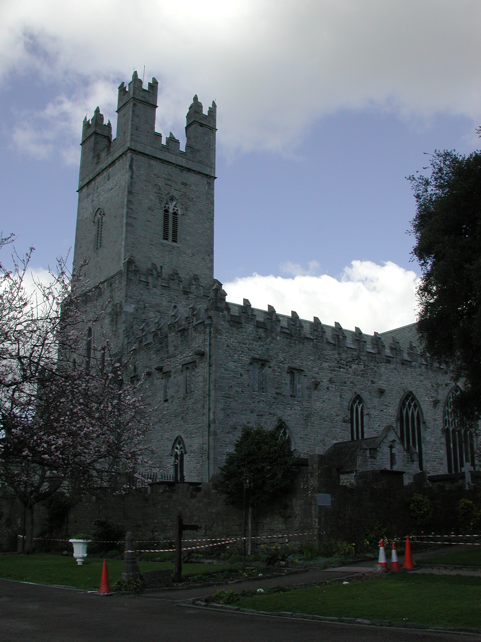 Ardeaglais Mhuire sa bhlian 2001 togtha ag Sean an Scuab